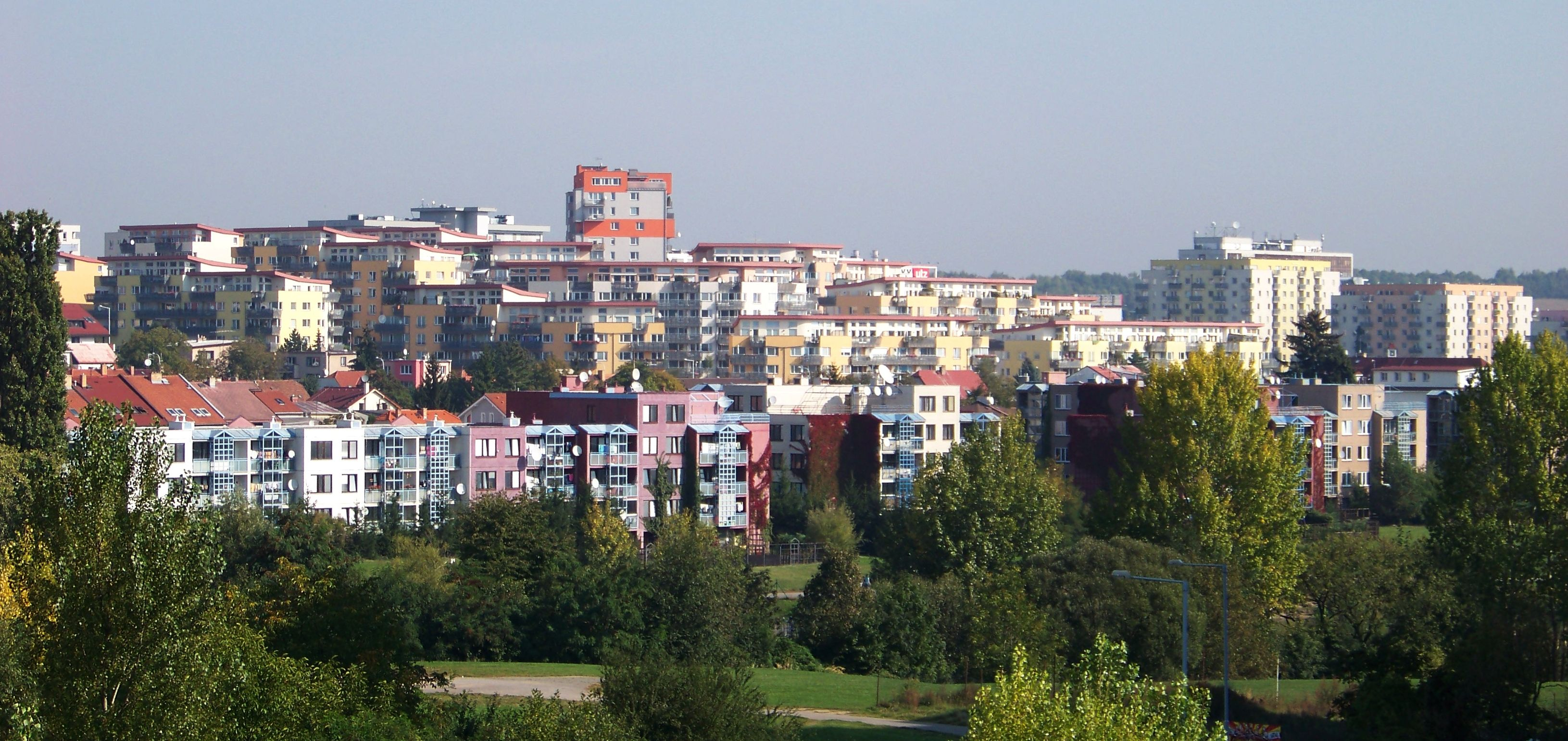 Prague-Stodůlky, the Czech Republic. - Google Maps - Google Earth